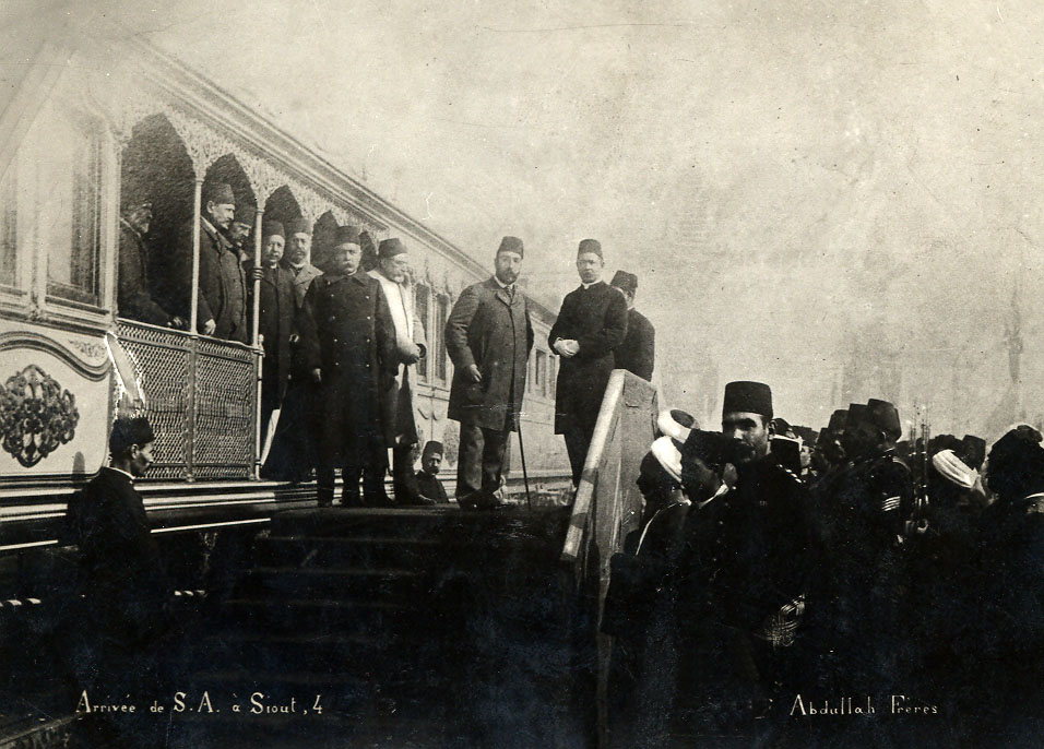 Tawfiq Pasha, Khedive of Egypt (1879-1892), arriving with his court and royal guards at the Asyut train station. Tawfiq Pasha can be seen descending from the train and holding a walking stick.